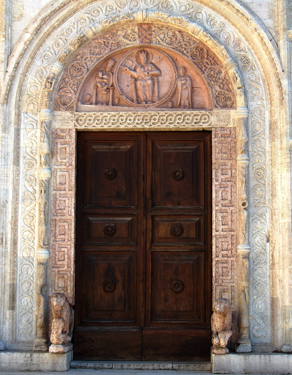 Central entrance of the Cathedral of San Rufino, Assisi, Italy